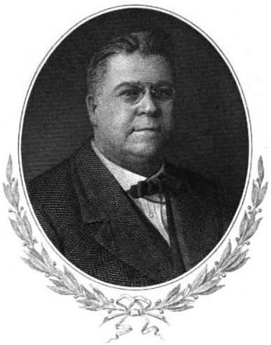 Michael F. Conry, New York Congressman